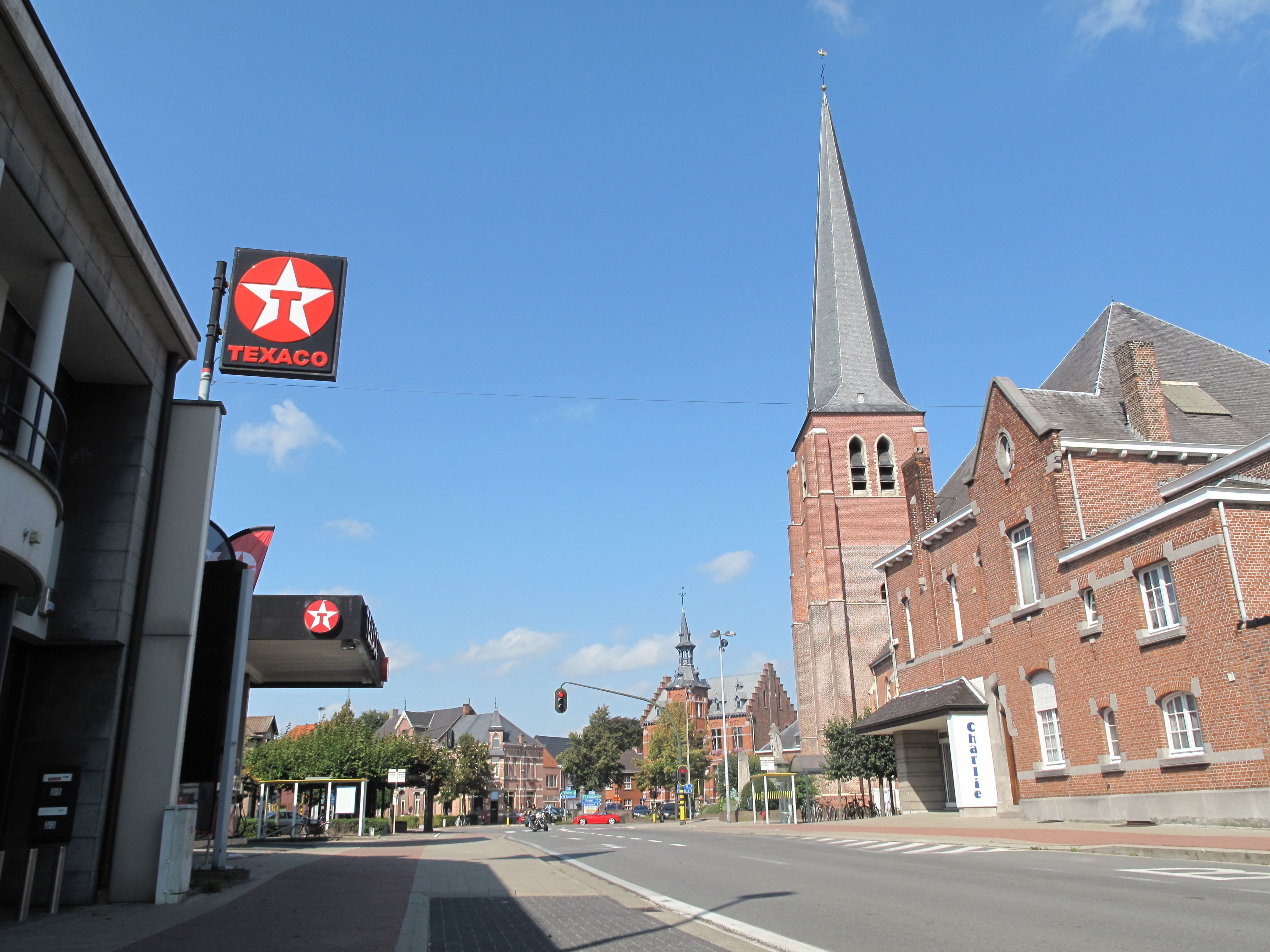 Retie, church: de Sint Martinuskerk